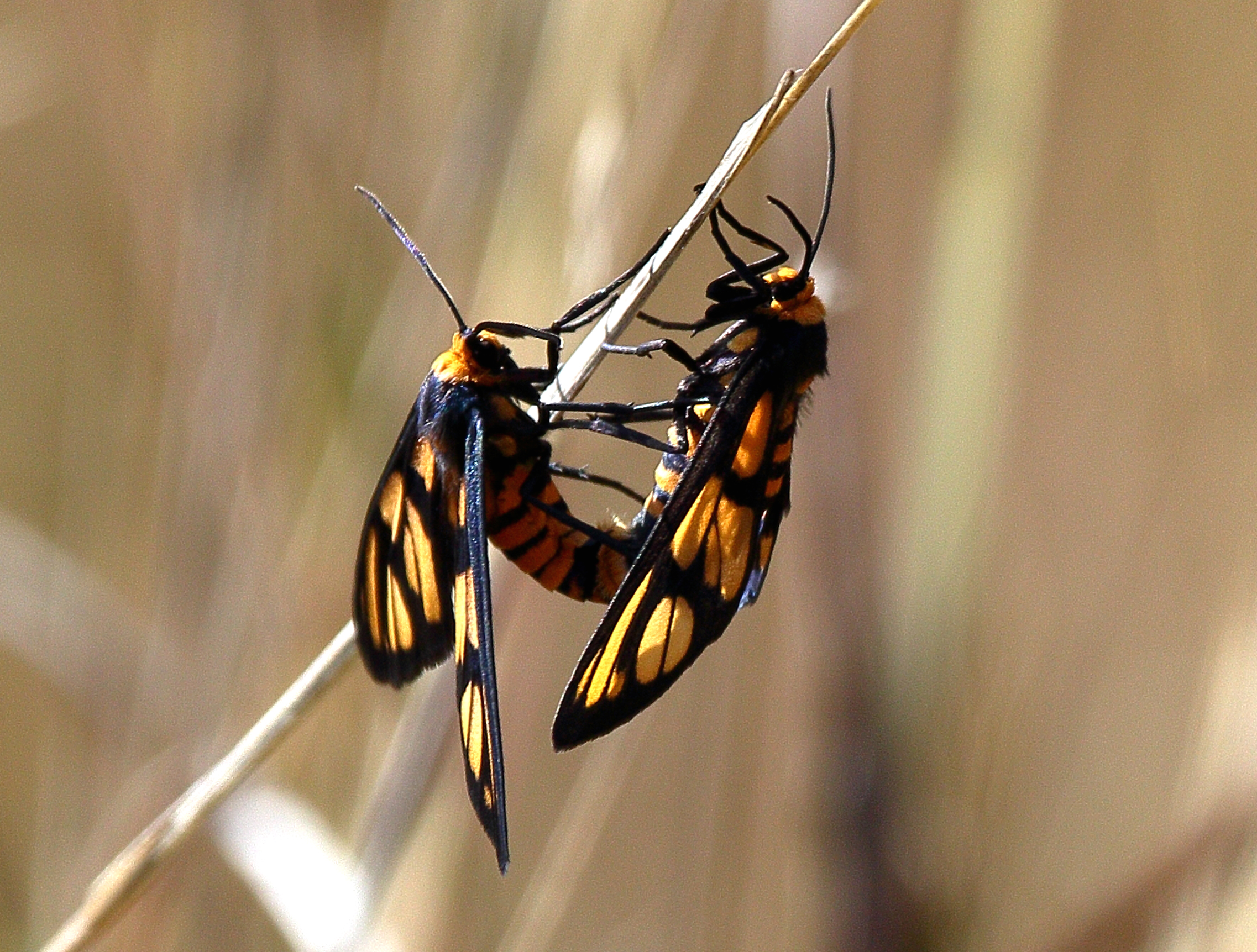 Mating moths (Amata antitheta) photographed at Reedy Brook station, Queensland, Australia